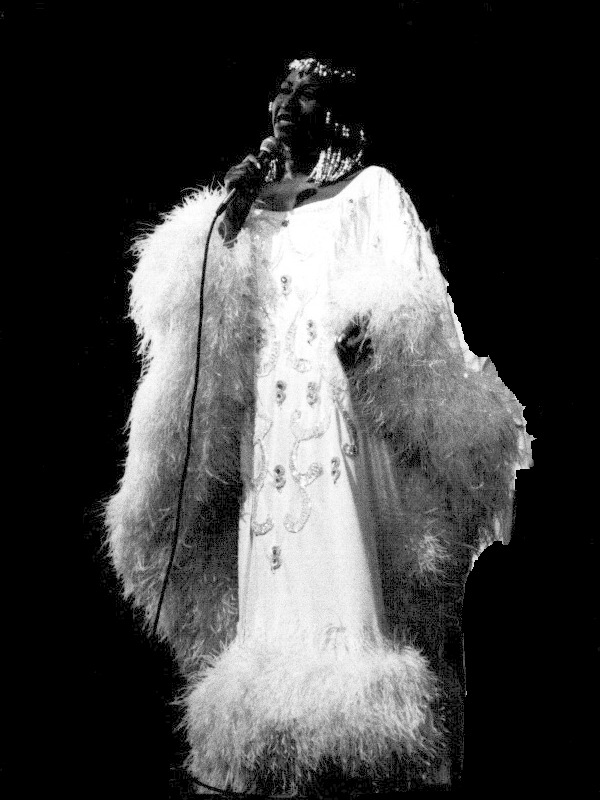 Singer Celia Cruz in Paris, France.